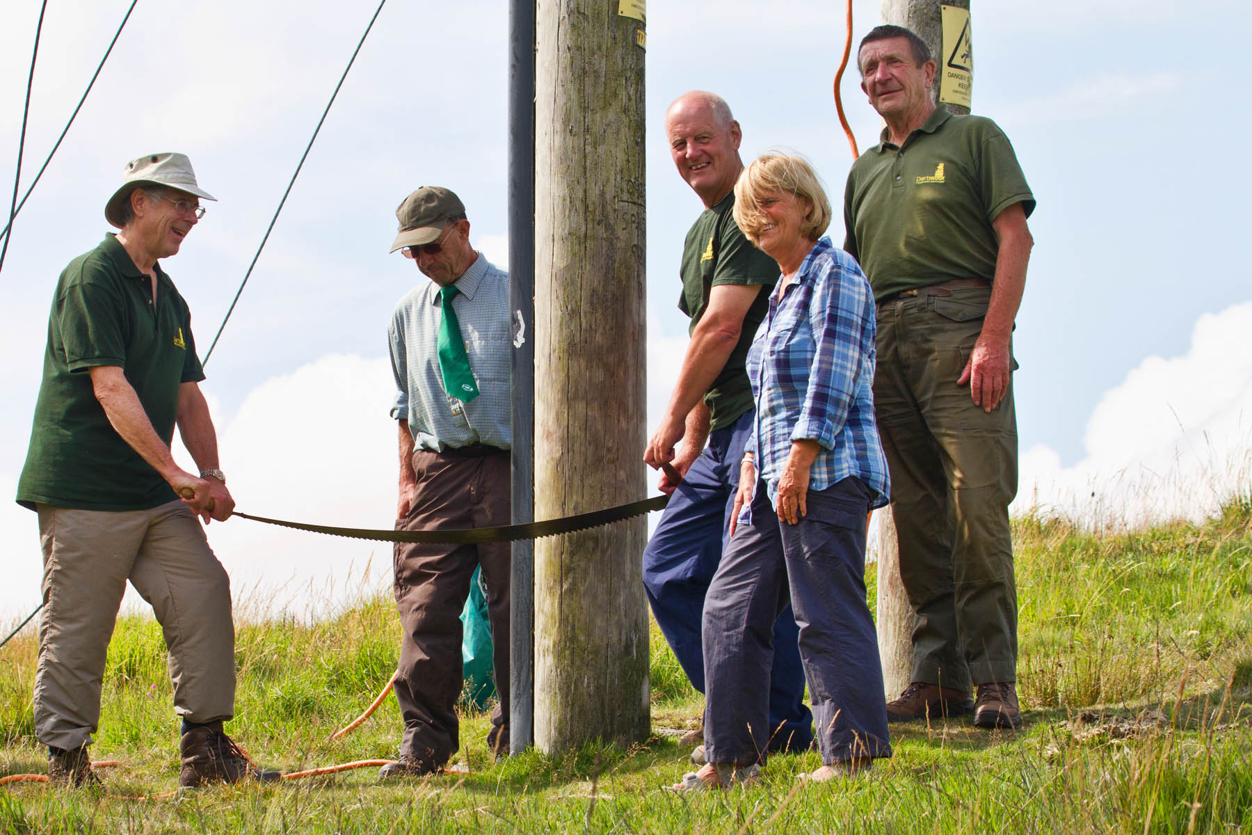 Walkhampton Common pylons during undergrounding